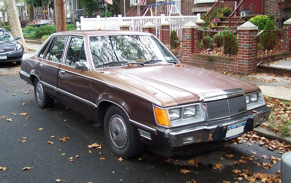 1983 Mercury Marquis midsize